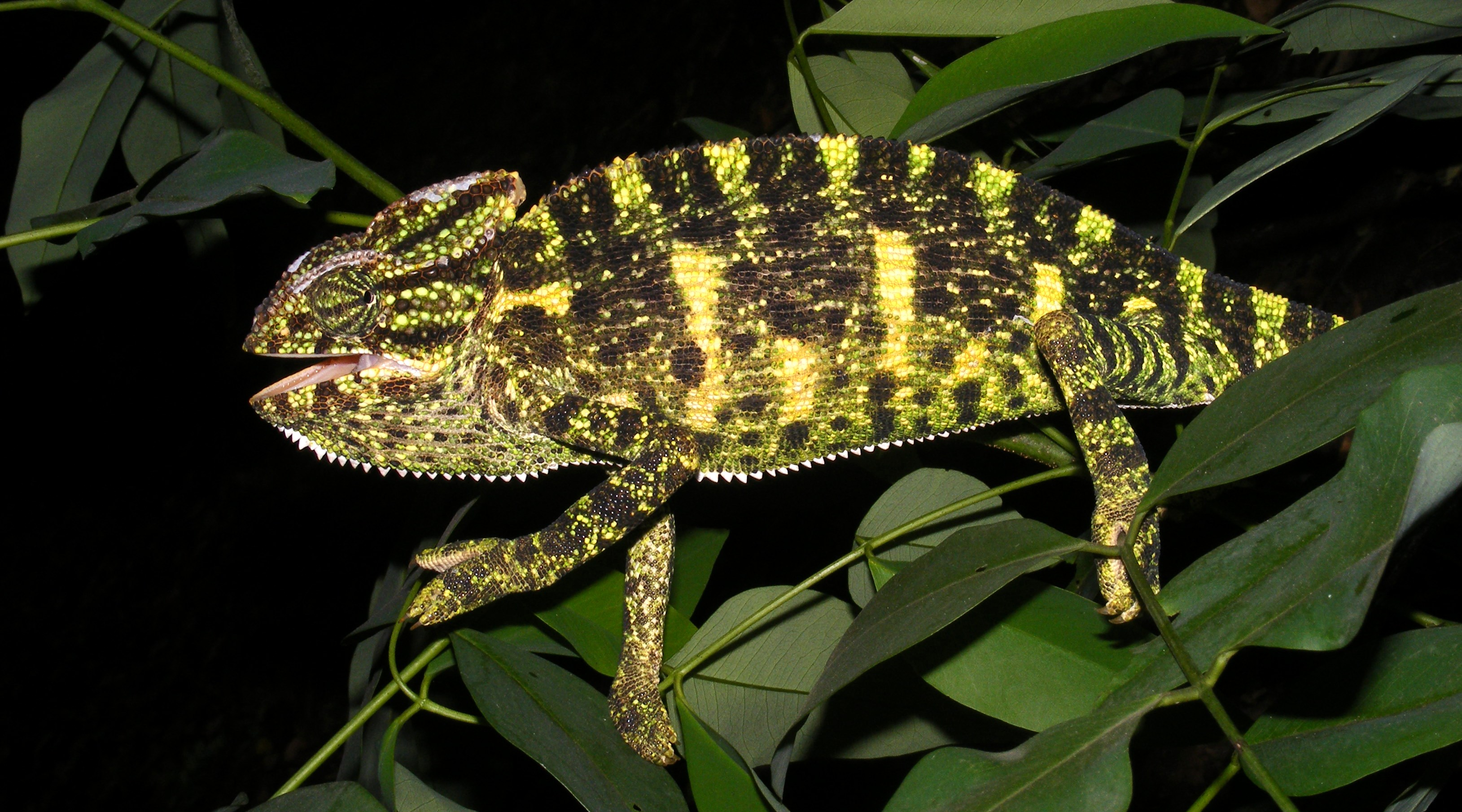 Indian Chameleon Chamaeleo zeylanicus SGNP Mumbai DSCF0251 (6)